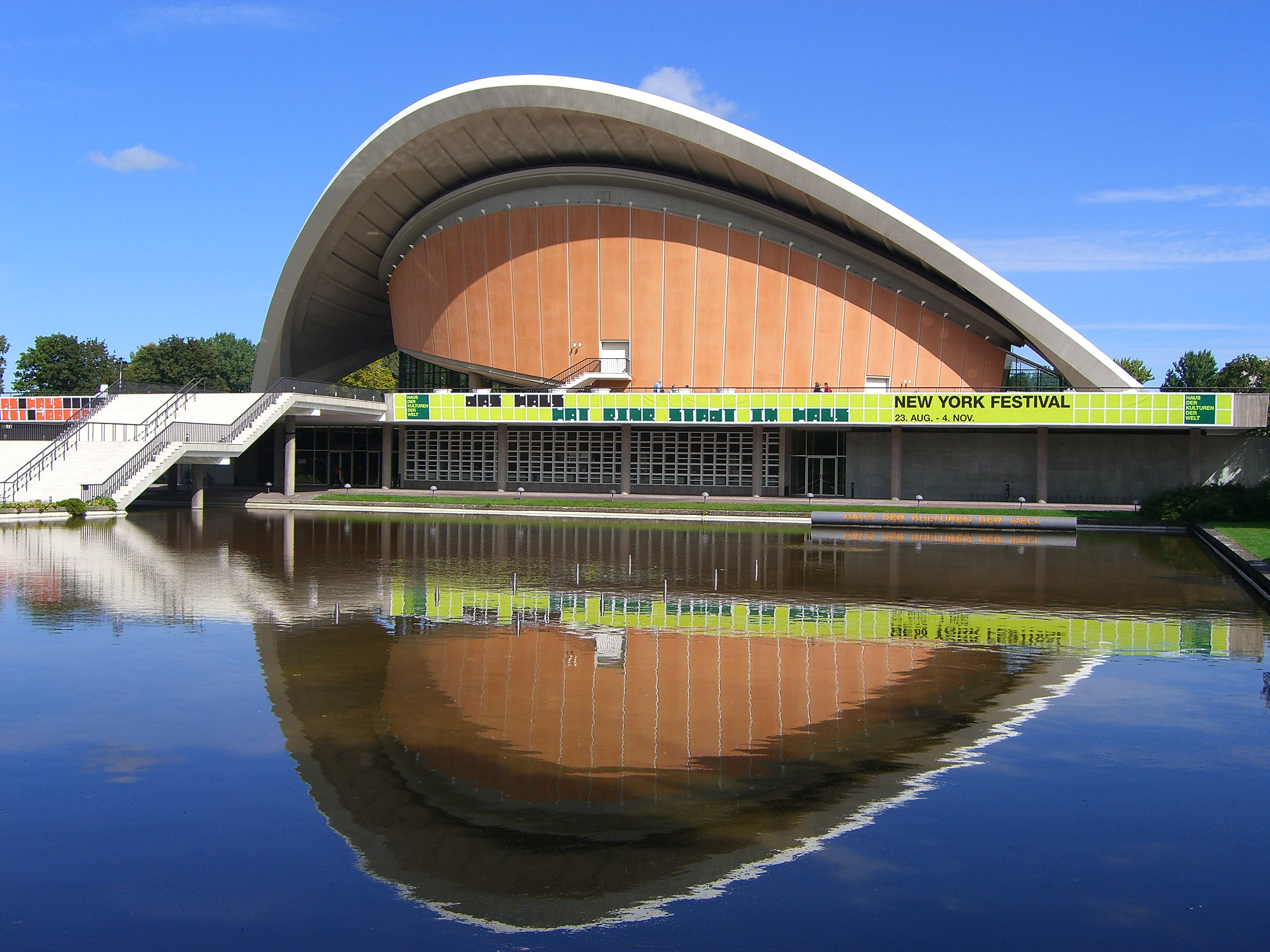 Haus der Kulturen der Welt in Berlin after the reconstruction in 2007.